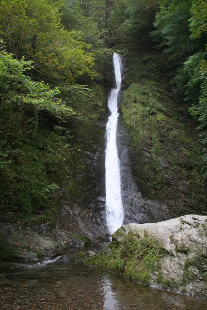 Whitelady waterfall at Lydford Gorge 30-metre high Whitelady waterfall